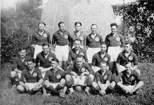 Swiss champion 1924/25 Servette FC Back: Kellermüller, Reymond, Wuilleumier, Fehlmann, Scheller Middle: Beyner, Perrier, Pichler, Richard, Beetschen Front: Matringe, Passallo, Dietrich, Lüthy, Thurling